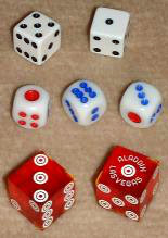 American, Chinese, and casino dice